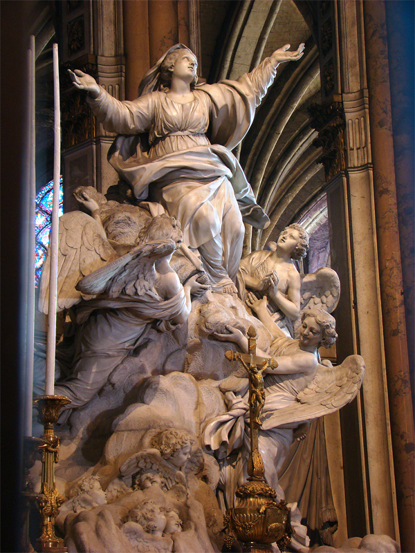 Chartres Cathedral, Eure-et-Loir, Centre, France. The 18th Century Assumption in the choir.